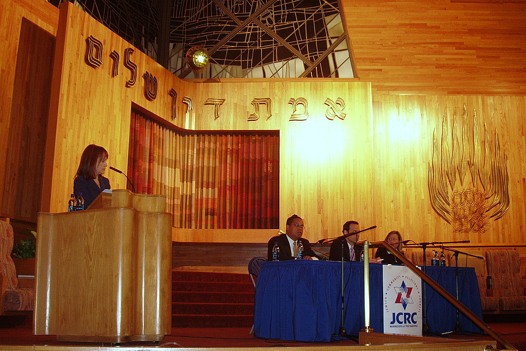 Taken by user and released into the public domain.